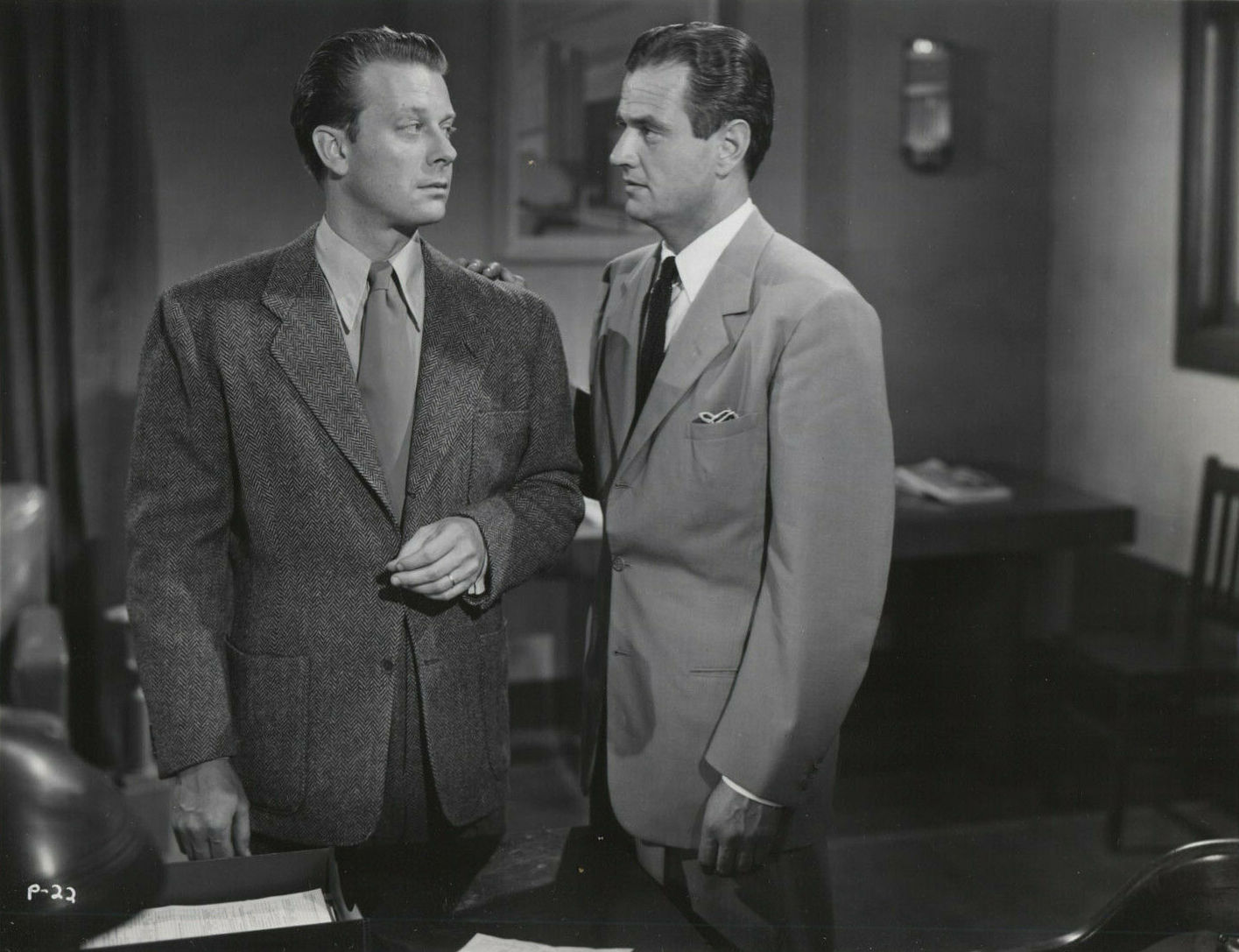 Press photo of David Bruce and Bruce Edwards in the 1949 film "Prejudice"